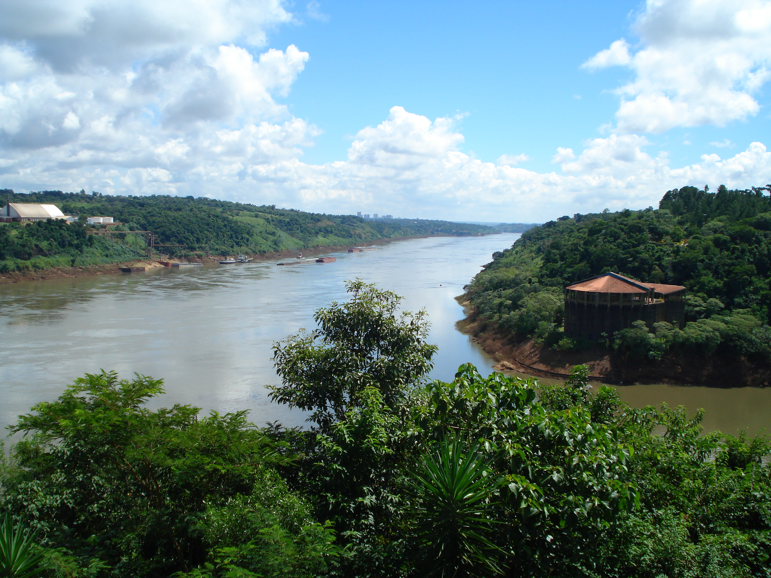 The triple frontier of Argentina, Brazil and Paraguay at the confluence of the Iguazu River (right) and the Parana (left). At the bottom of the image is Argentina, Brazil is at the top right, and Paraguay is to the left.